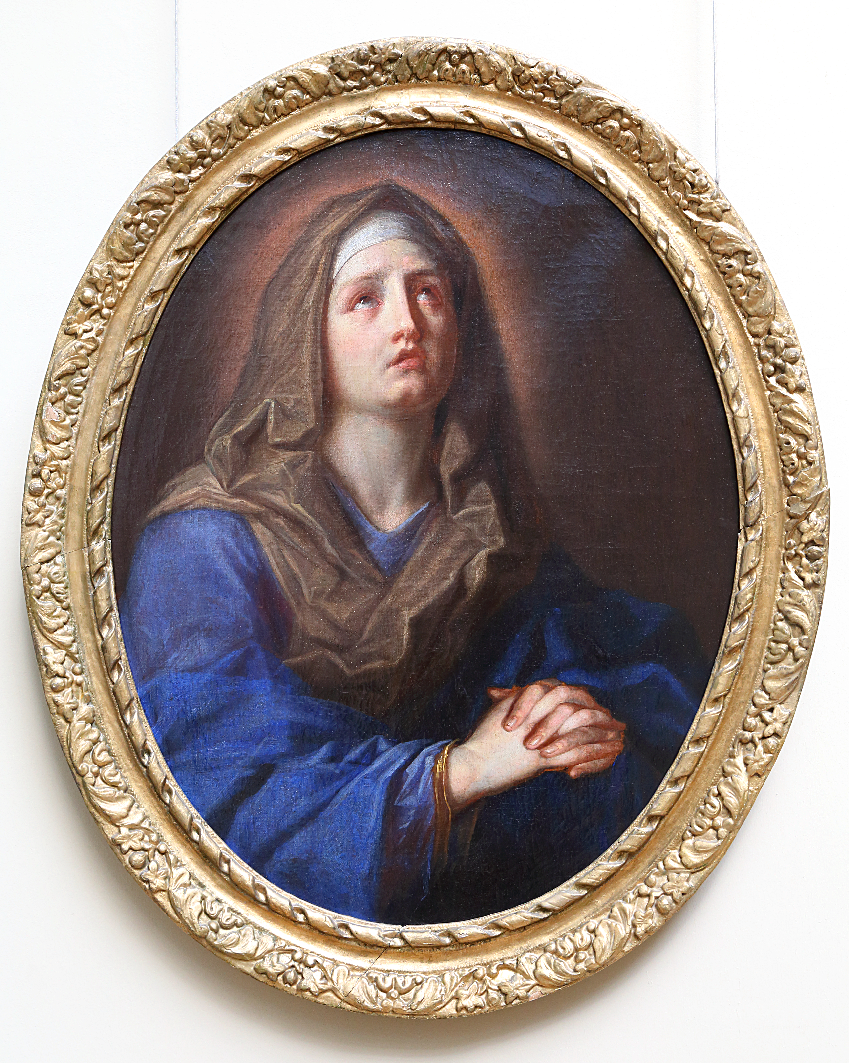 Arnould de Vuez, La Vierge de douleur, oil on canvas. Picture taken at the Palais des beaux-arts of Lille, France.